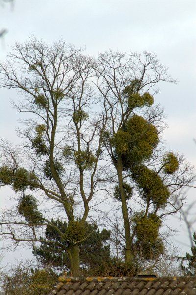 A tree heavily infested with mistletoe.